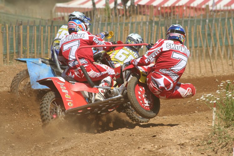 zijspancrosser waarvan het bakwiel de lucht in gaat Jan Hendrickx / Tim Smeuninx (No 7) and Bertram Martin / Bruno Kaelin (No 68) in the 2006 sidecarcross worldchampionship.